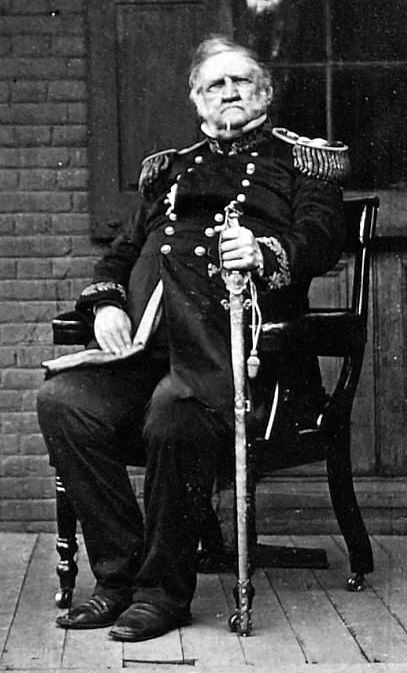 Winfield Scott, seated. Photo by Mathew Brady in 1861.